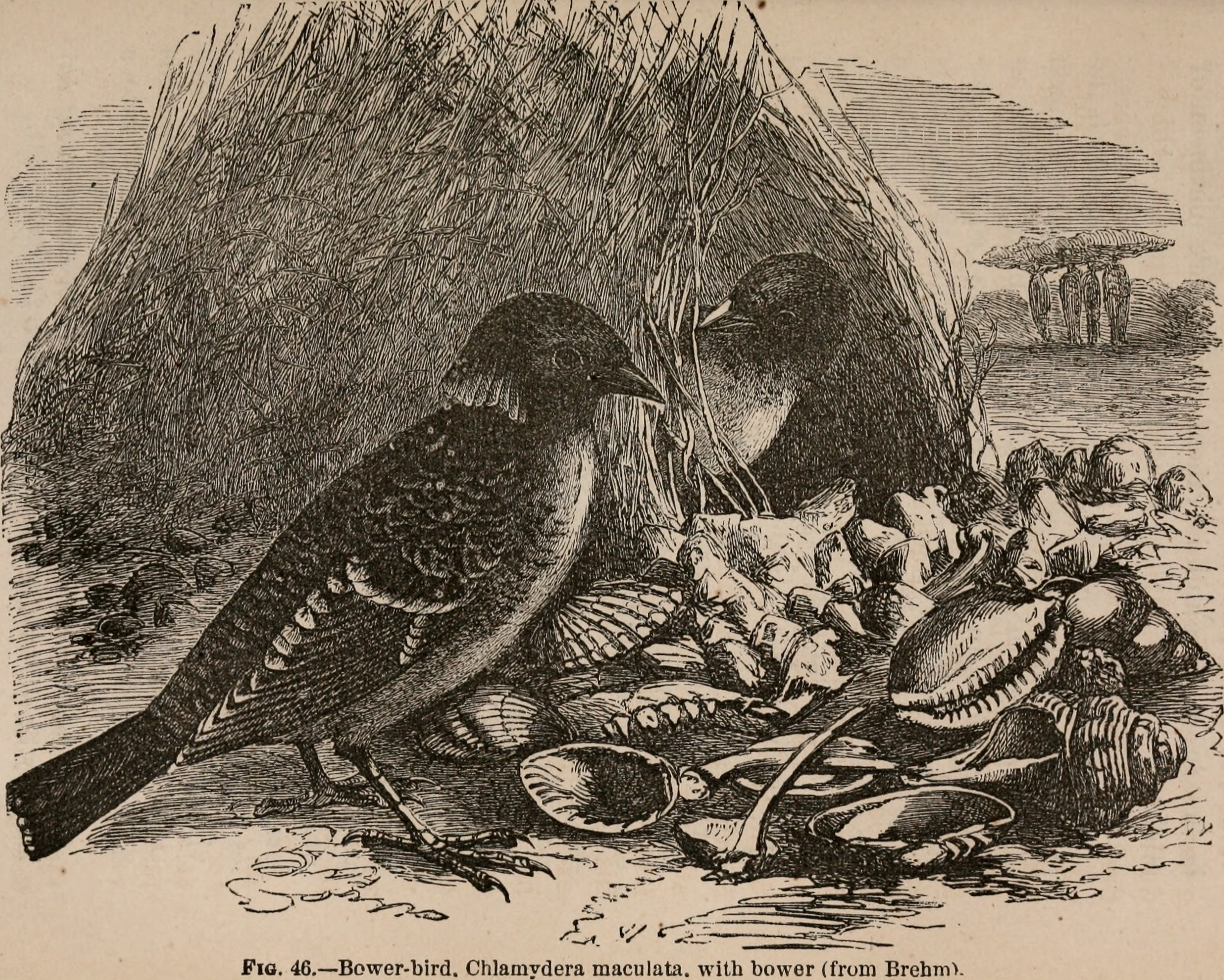 Title: The descent of man, and selection in relation to sex Year: 1873 (1870s) Authors: Darwin, Charles, 1809-1882 Subjects: Evolution; Natural selection; Sexual selection in animals; Human beings -- Origin; Sexual dimorphism (Animals) Publisher: New York : D. Appleton and Co. Text Appearing Before Image: Chap. XIII.) LOVE-ANTICS. 67 " amusing itself by flying backward and forward, taking a shell alternately from each side, and carrying it through the archway in its mouth." These curious structures, Text Appearing After Image: '